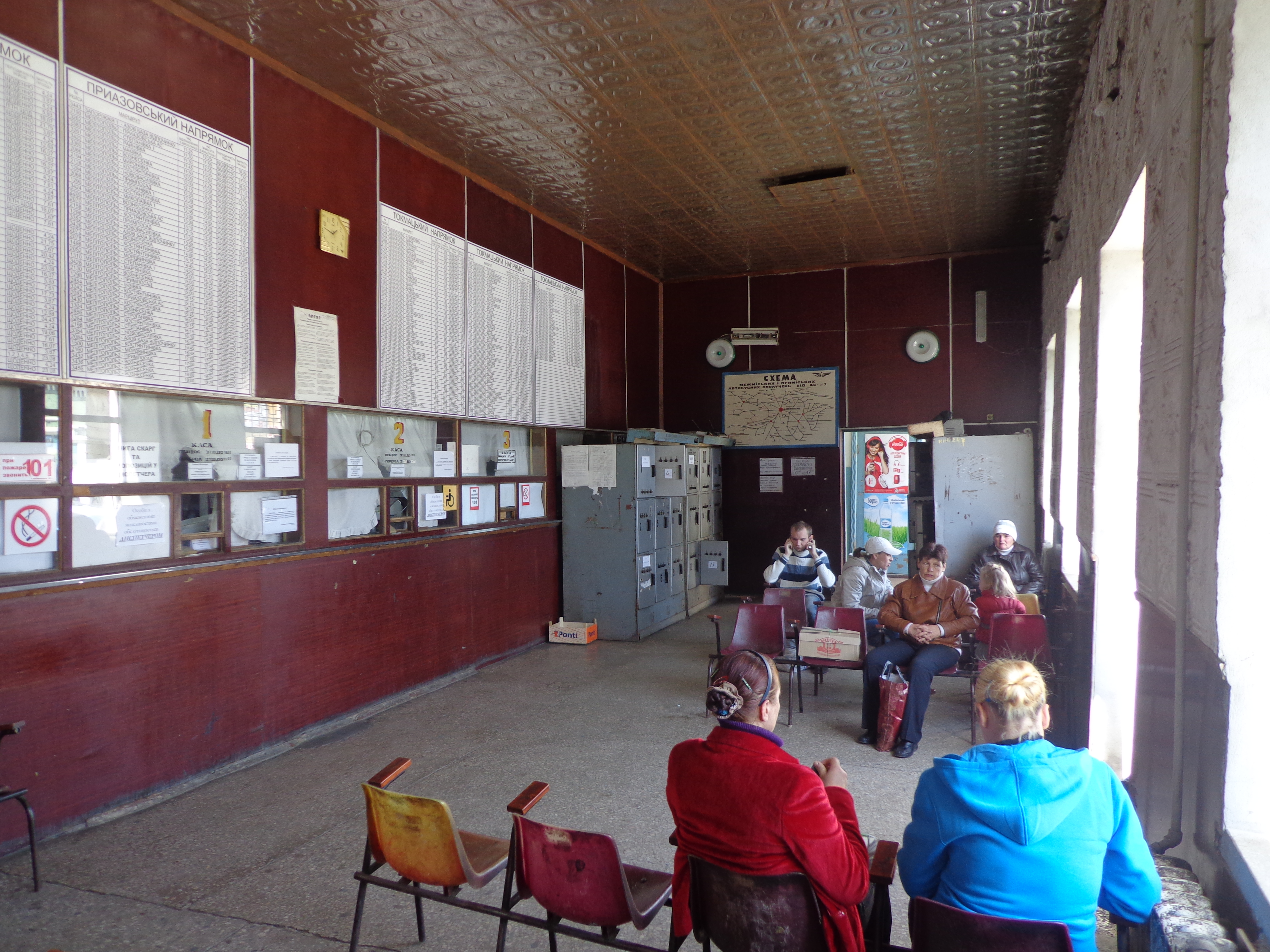 Interior of Bus Station Number 2, Melitopol, Zaporizhia Oblast, Ukraine